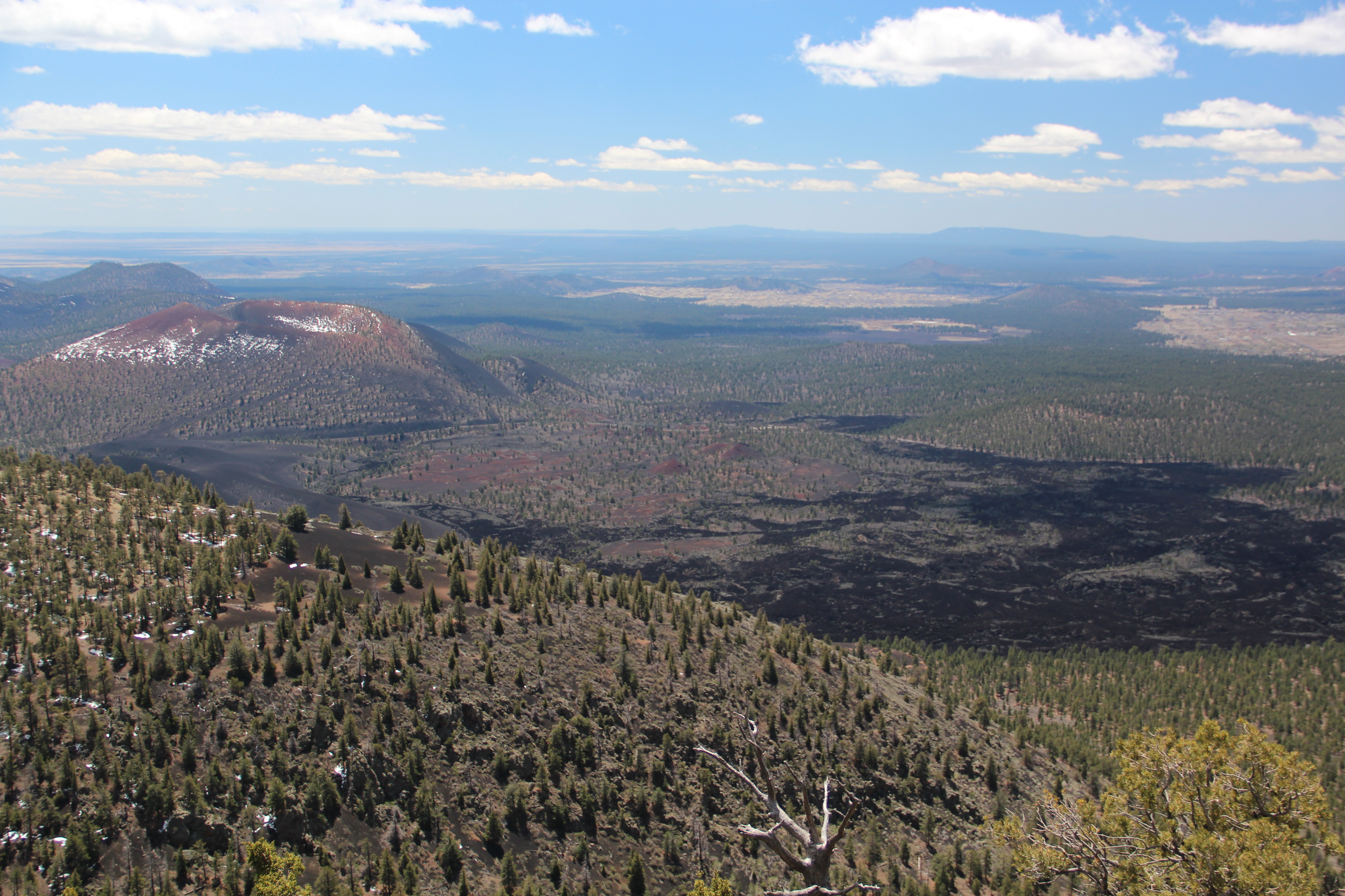 Sunset Crater and Bonito Lava Flow seen from O'Leary Peak